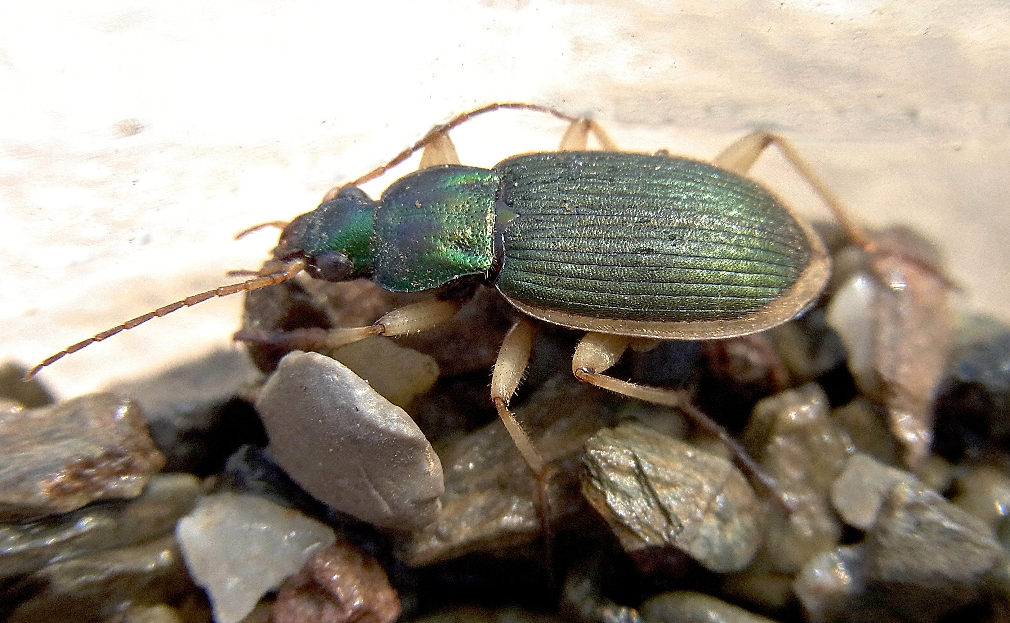 Chlaenius velutinus from Southern France north of Beziers